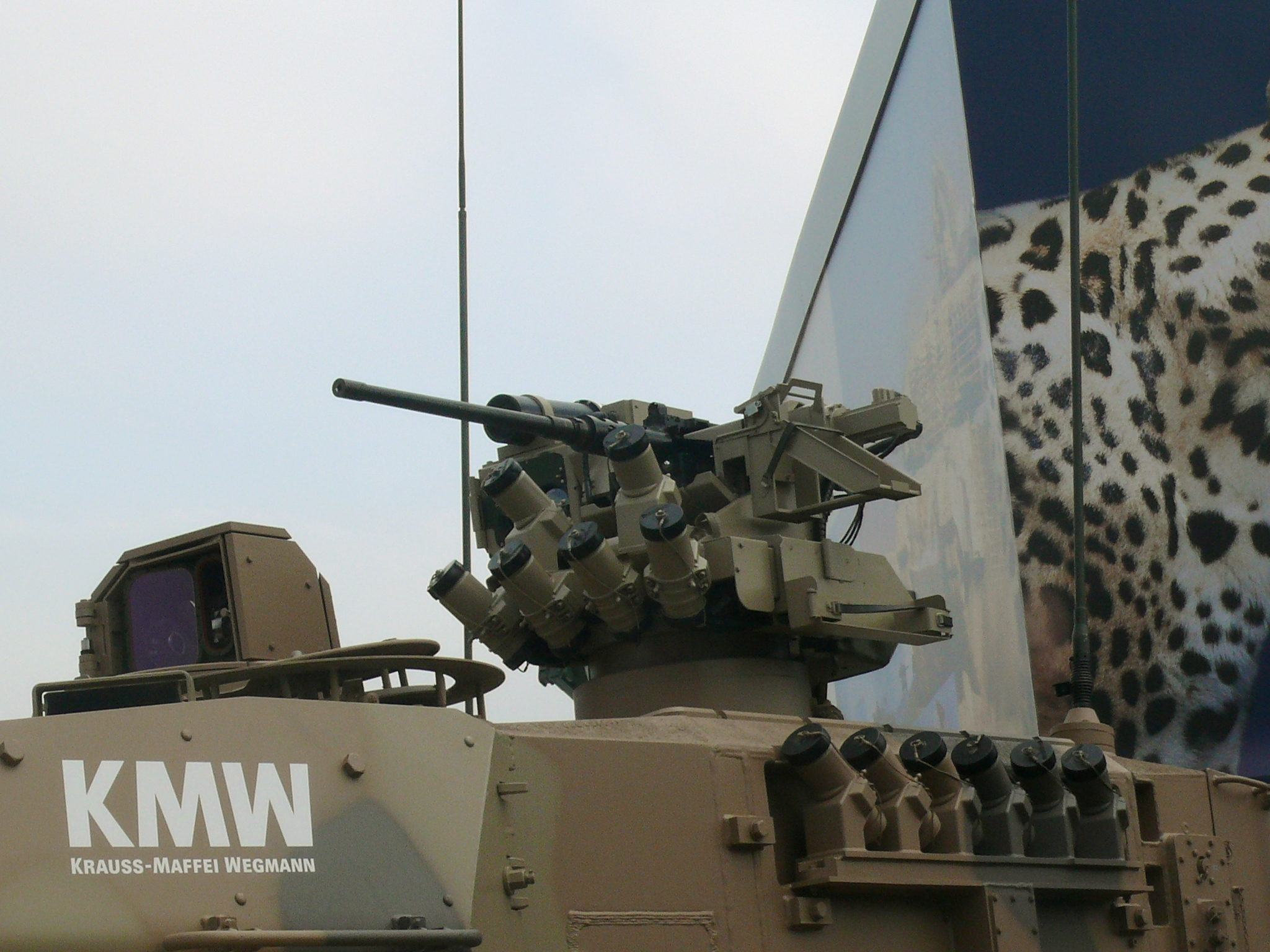 Leopard 2 A7